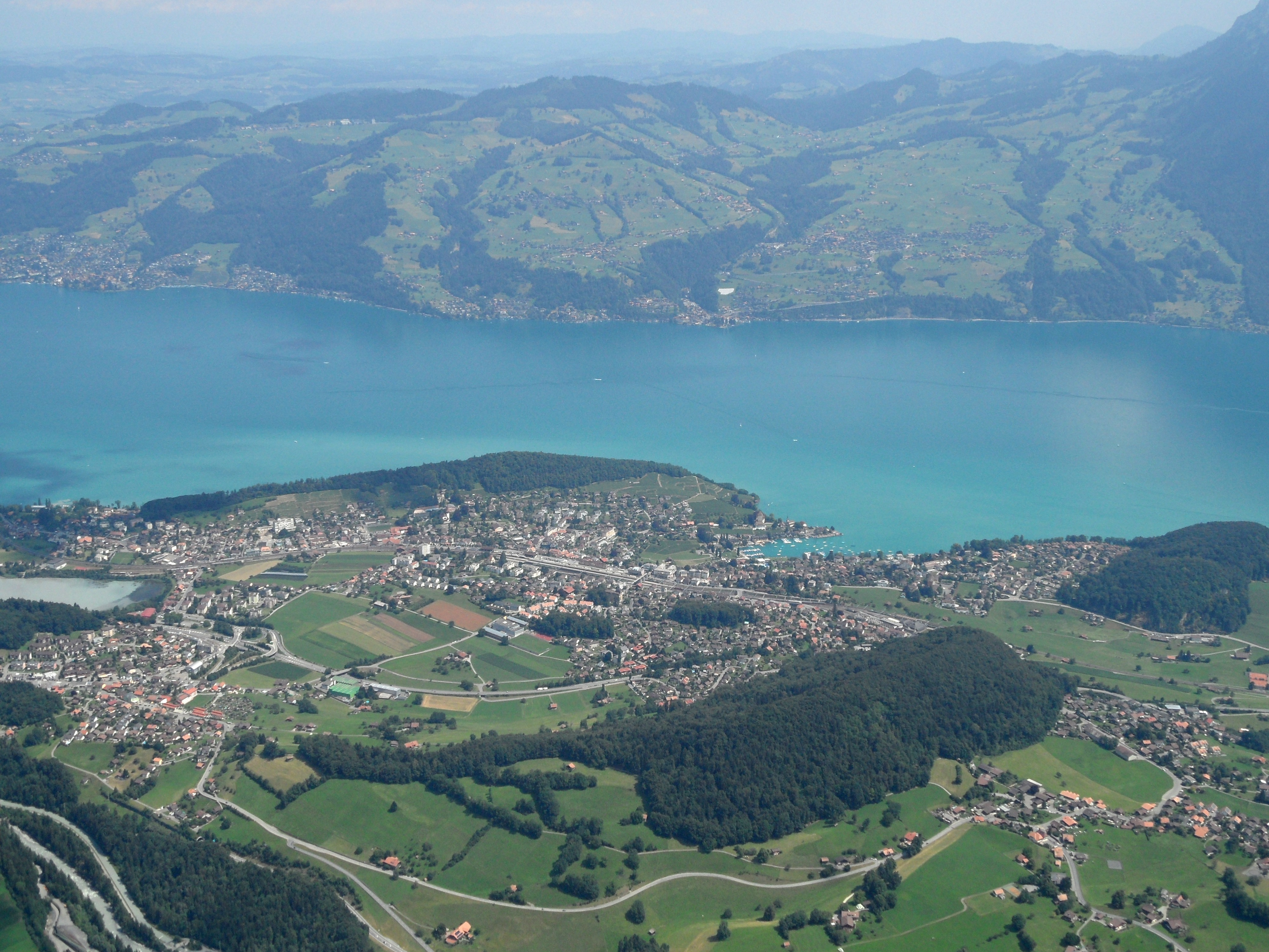 Spiez by air